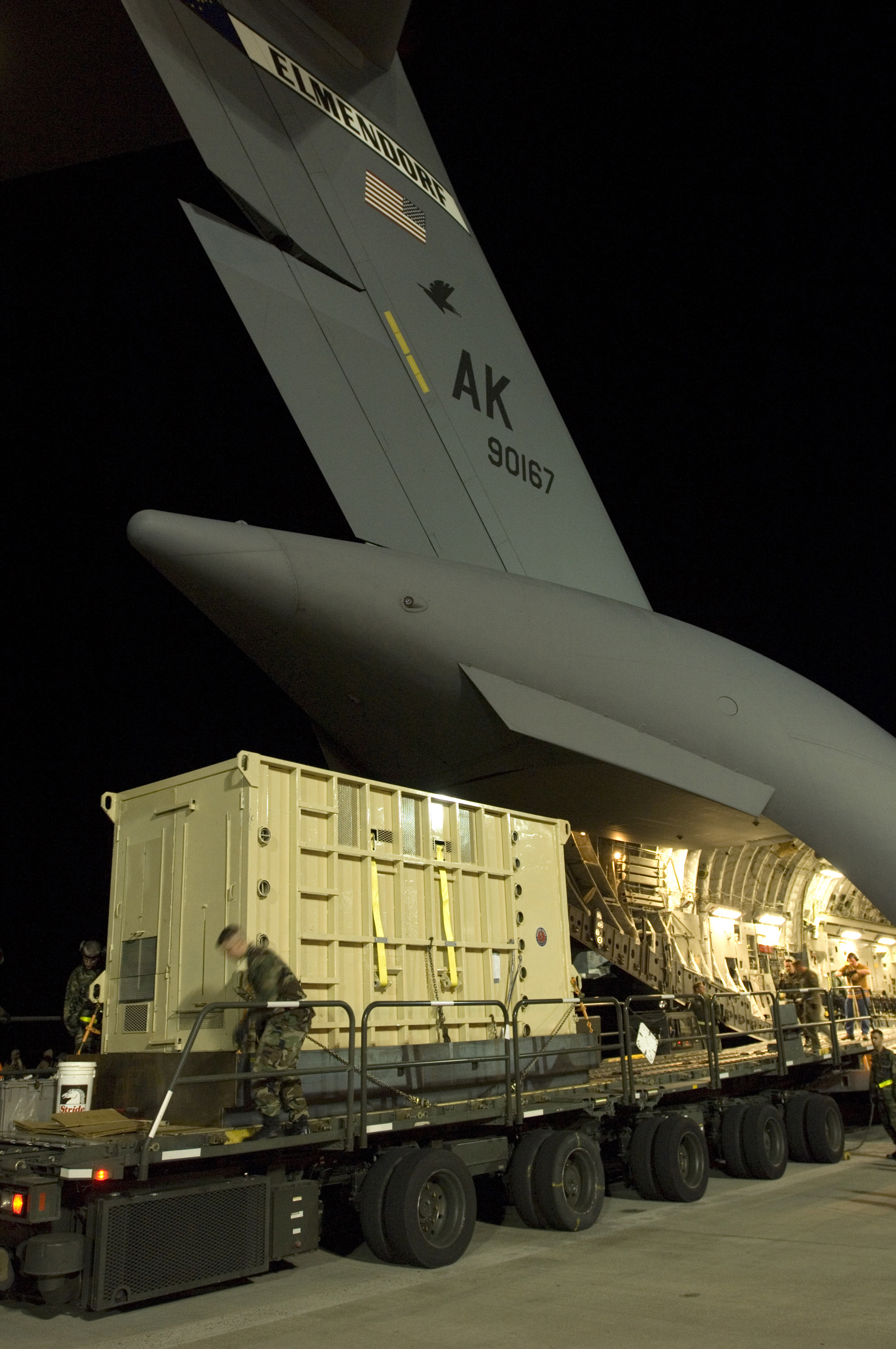 A 517th Airlift Squadron C-17 Globemaster III from Elmendorf Air Force Base, Alaska, sits on the tarmac here while the crate carrying Maggie, an 8,000-pound African elephant, is off-loaded for transport to the Performing Animal Welfare Society's ARK 2000 Wildlife Sanctuary. From Travis AFB, Maggie's crate was loaded on a trailer where it made the two-hour drive to her new home.